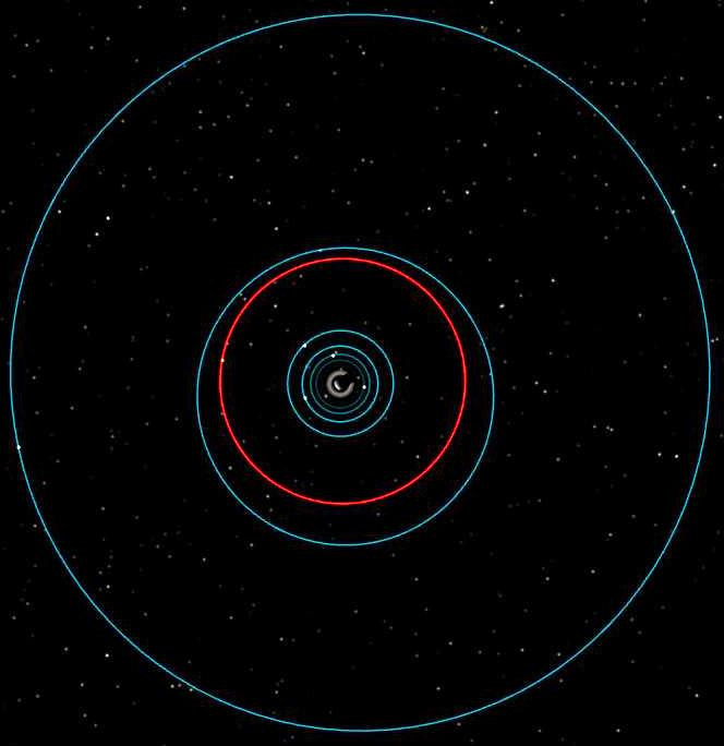 The orbit of Titan, highlighted in red among the other large inner moons of Saturn. The outer moons are (l-r) Iapetus and Hyperion; the inner moons are (l-r) Rhea, Dione, Tethys, Enceladus and Mimas. Image created using Celestia software.